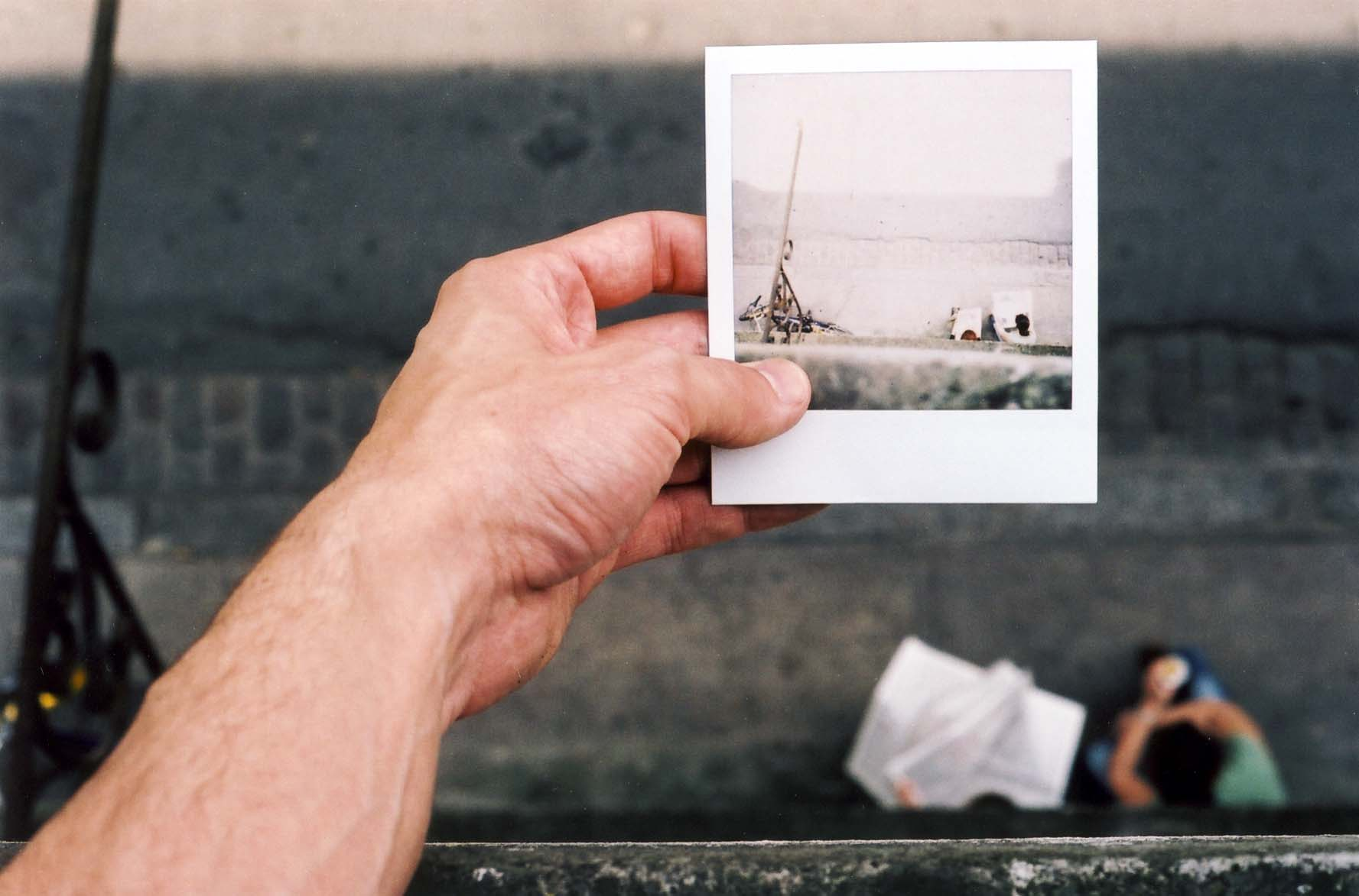 polaroid photograph on photograph